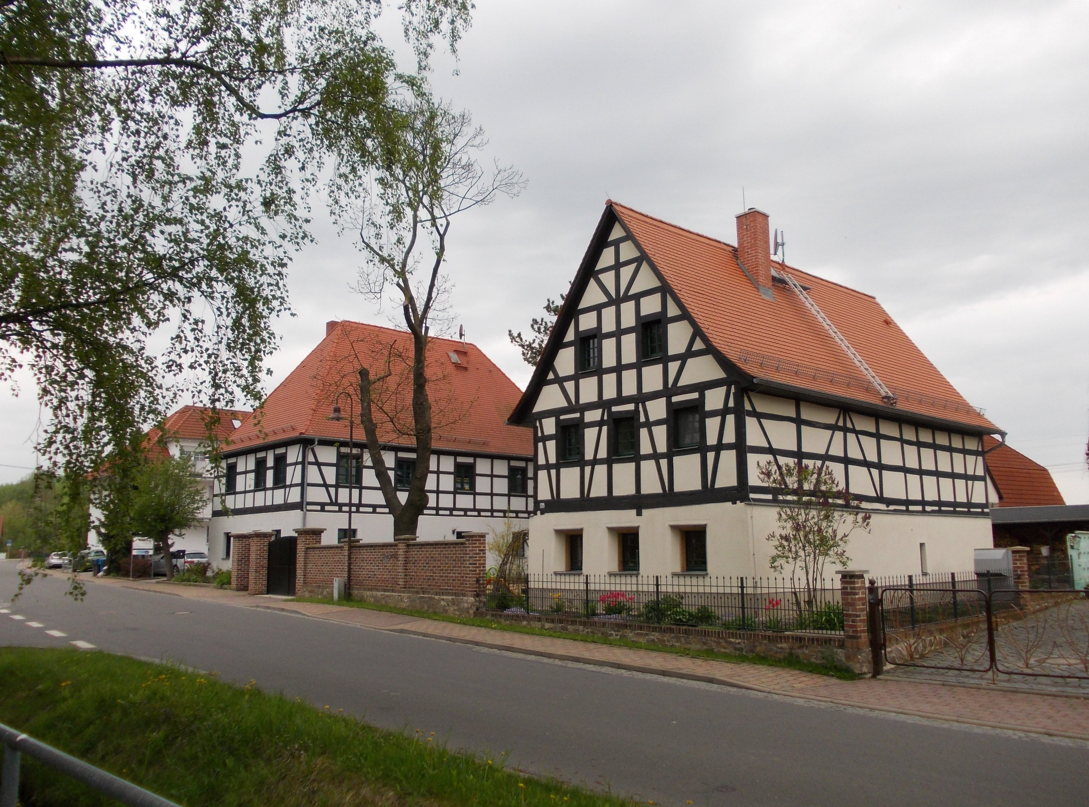 Half-timbered houses near the church in Köhra (Belgershain, Leipzig district, Saxony)